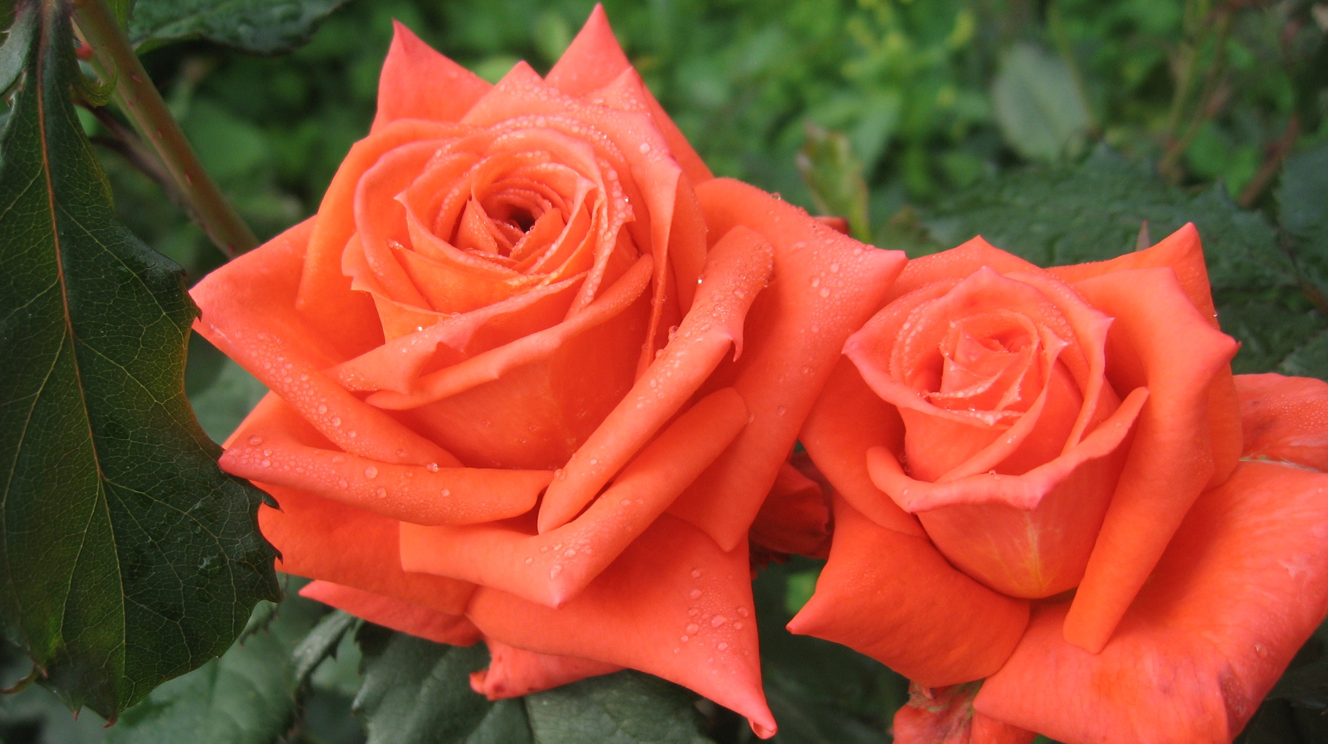 Roses with dew in Rishon LeZion.